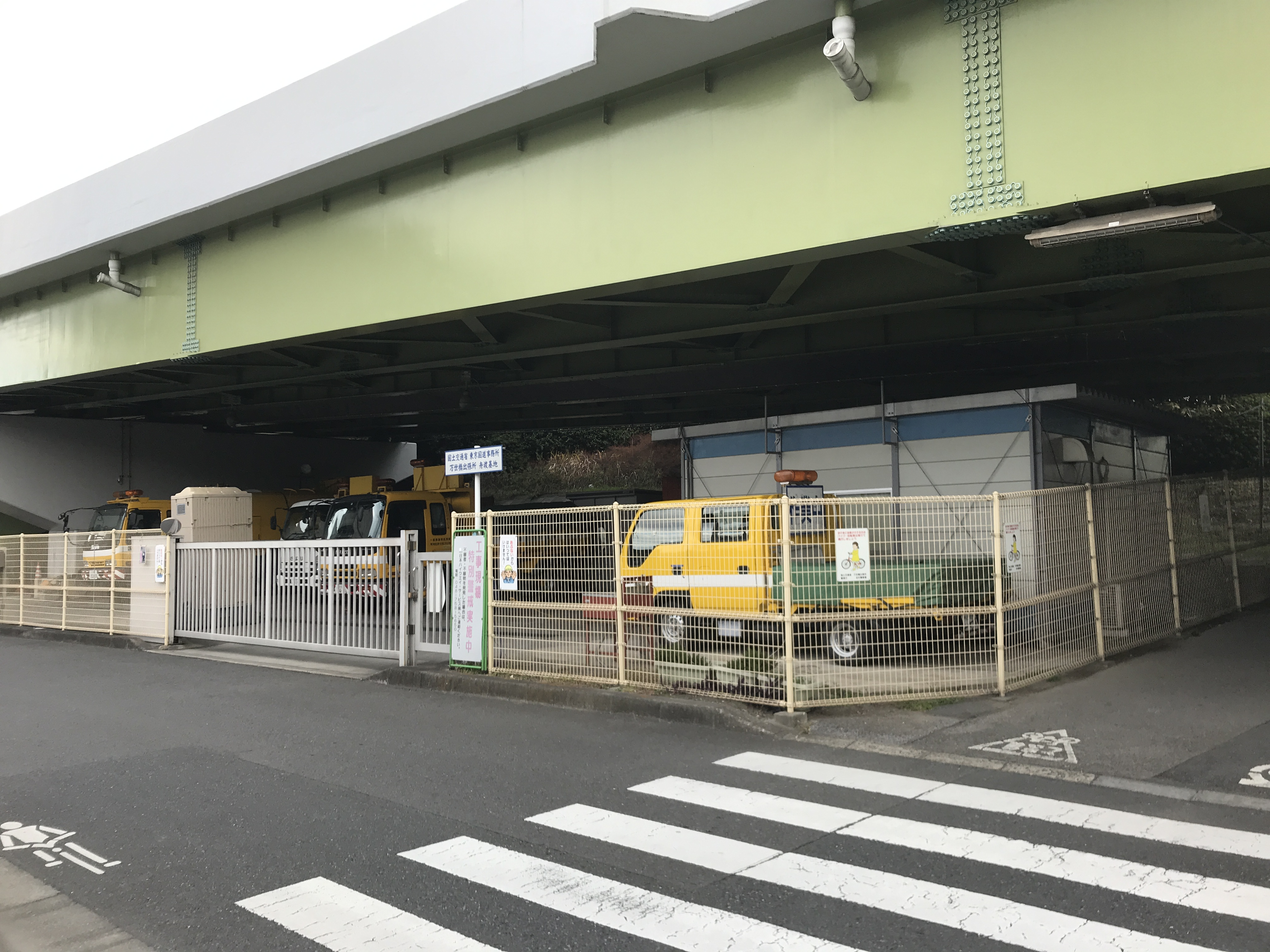 Located under the the Toda Bridge of Arakawa River.